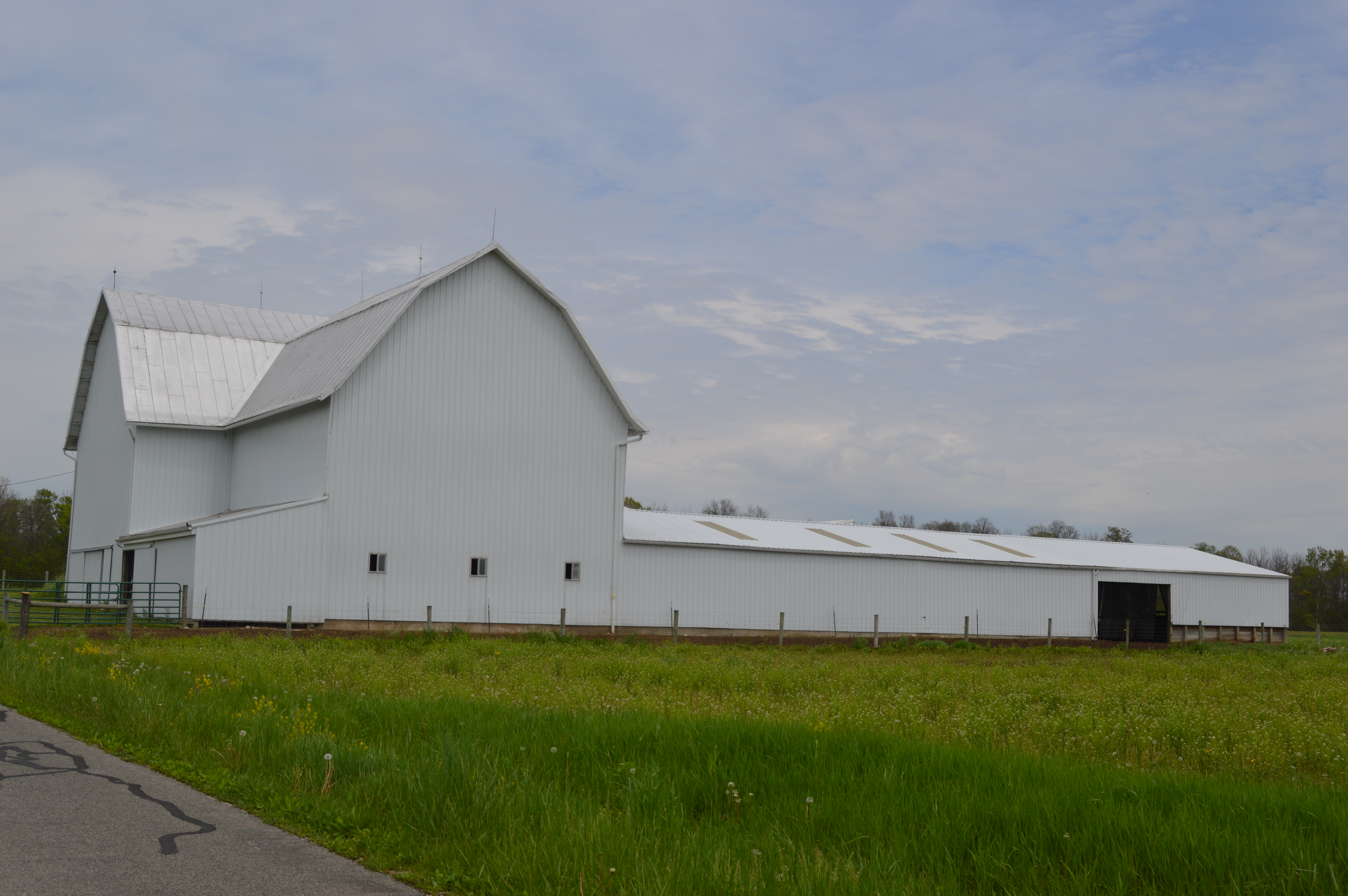 Southern side and front of a barn located at 2589 S. County Road 17 in far southeastern Clinton Township, Seneca County, Ohio, United States. The barn was built in 1930.